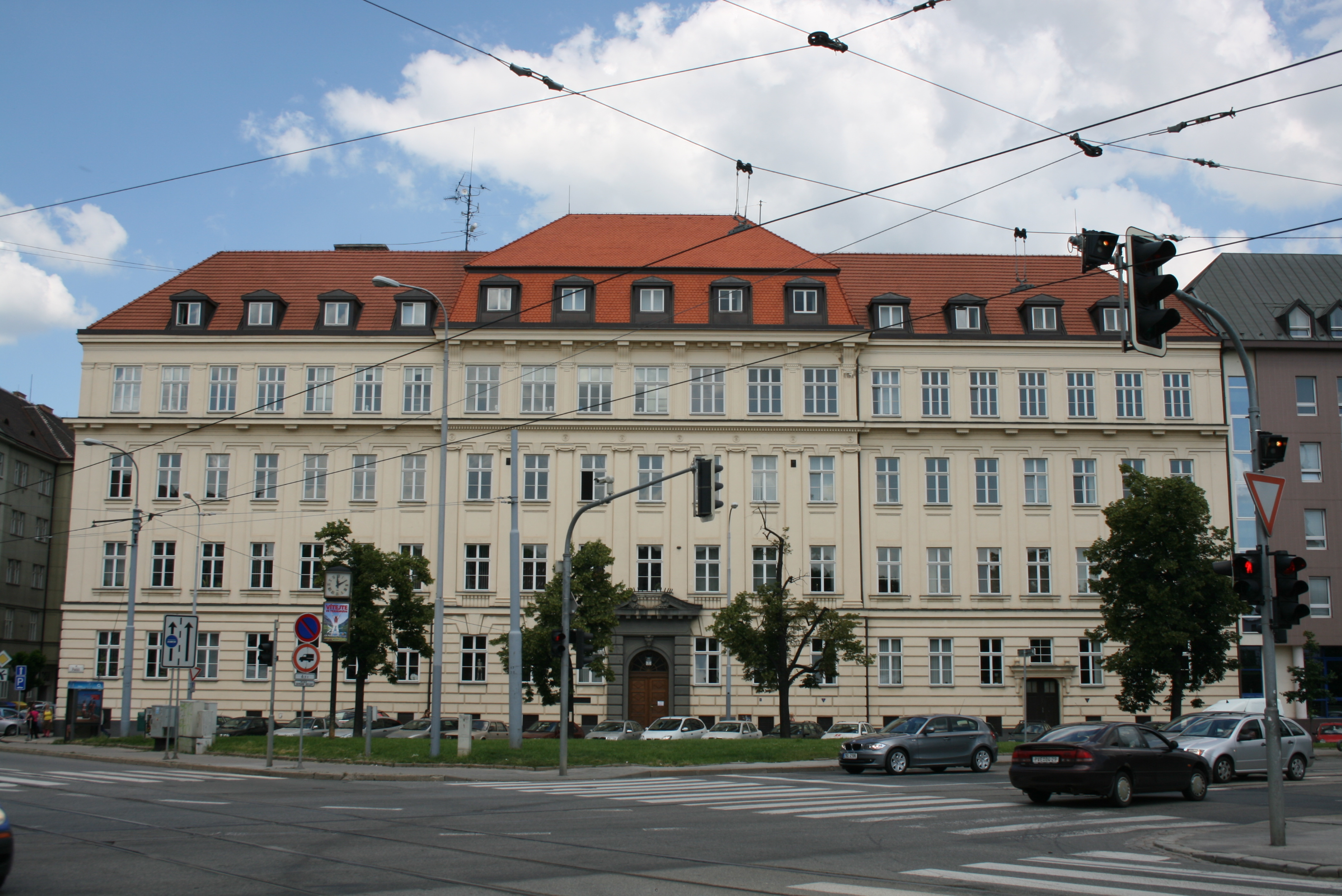 Faculty of Education at Poříčí 7 - Masaryk University, Brno, Czech Republic. Česky: Pedagogická fakulta MU v Brně, budova Poříčí 7. Celkový pohled od jihozápadu z křižovatky Poříčí-Křížová-Vídeňská